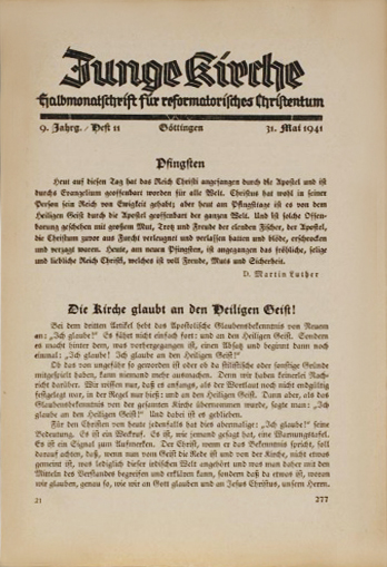 Cover of the german magazine "Junge Kirche" (Young Church), 1941